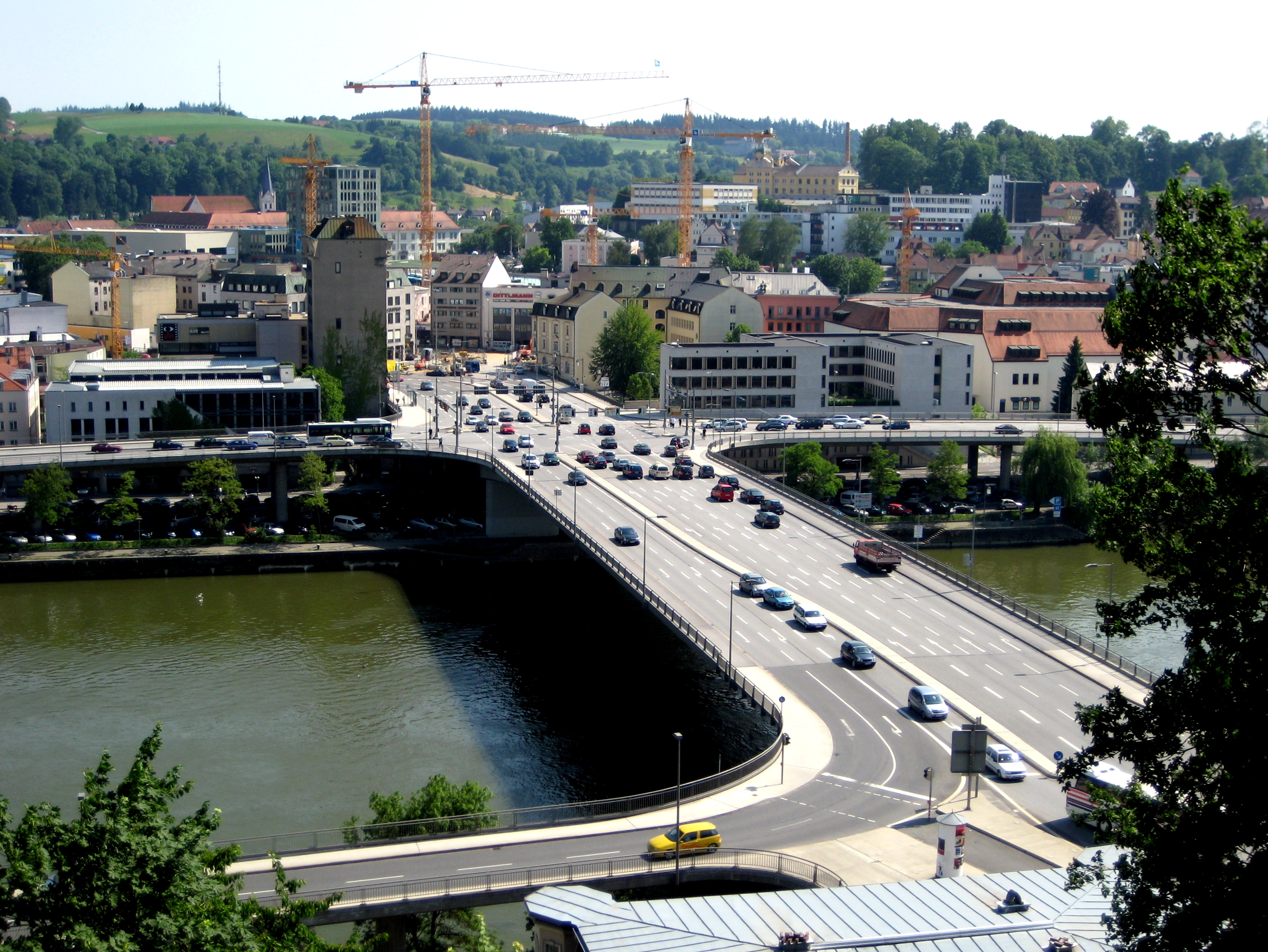 Schanzlbrücke over the Danube in Passau